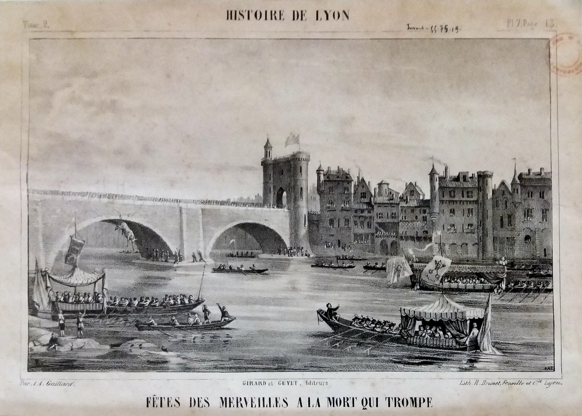 Whimsical picture of Lyon's fête des Merveilles. Lithograph from 19th century, published in Histoire de Lyon"", tome II. Drawn by A-A. Gaillard, printed by Fonville et Compagnie, edited by Girard et Guyet. Displayed in Gadagne museums, Lyon history rooms, donation: Verzier 1955, inventory number 55.75.19.